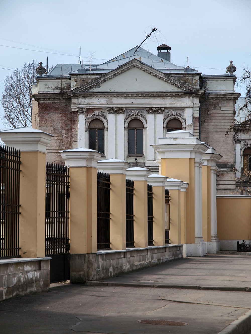 Moscow. Maly Znamensky Lane. Back view of the Golitsyn-Vyazemsky-Dolgoruky town estate, birthplace of poet Pyotr Vyazemsky.